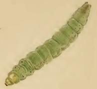 Stainton’s Natural History of the Tineina (1855–1873): Athrips tetrapunctella